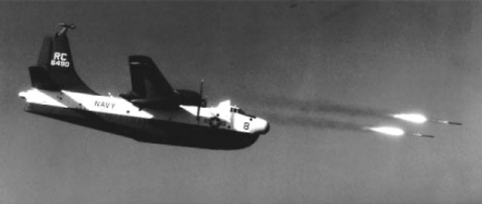 A U.S. Navy Martin P5M-1 Marlin (BuNo 126490) from Patrol Squadron VP-42 launching HVAR rockets.